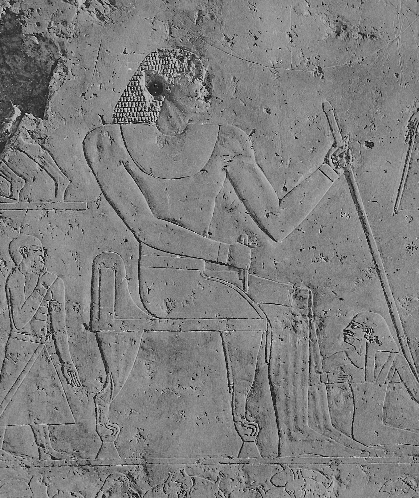 Ancient Egyptian relief closeup, depicting the nomarch Ukhhotep II, son of Senbi. From his tomb at Meir (B2), north wall, early 12th Dynasty, Middle Kingdom.